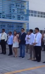 Screenshot of the video of Tanauan, Batangas Mayor Antonio Halili singing the national anthem with city officials, posted on Facebook by information office chief Gerardo Laresma, moments before the Batangas Mayor was killed.